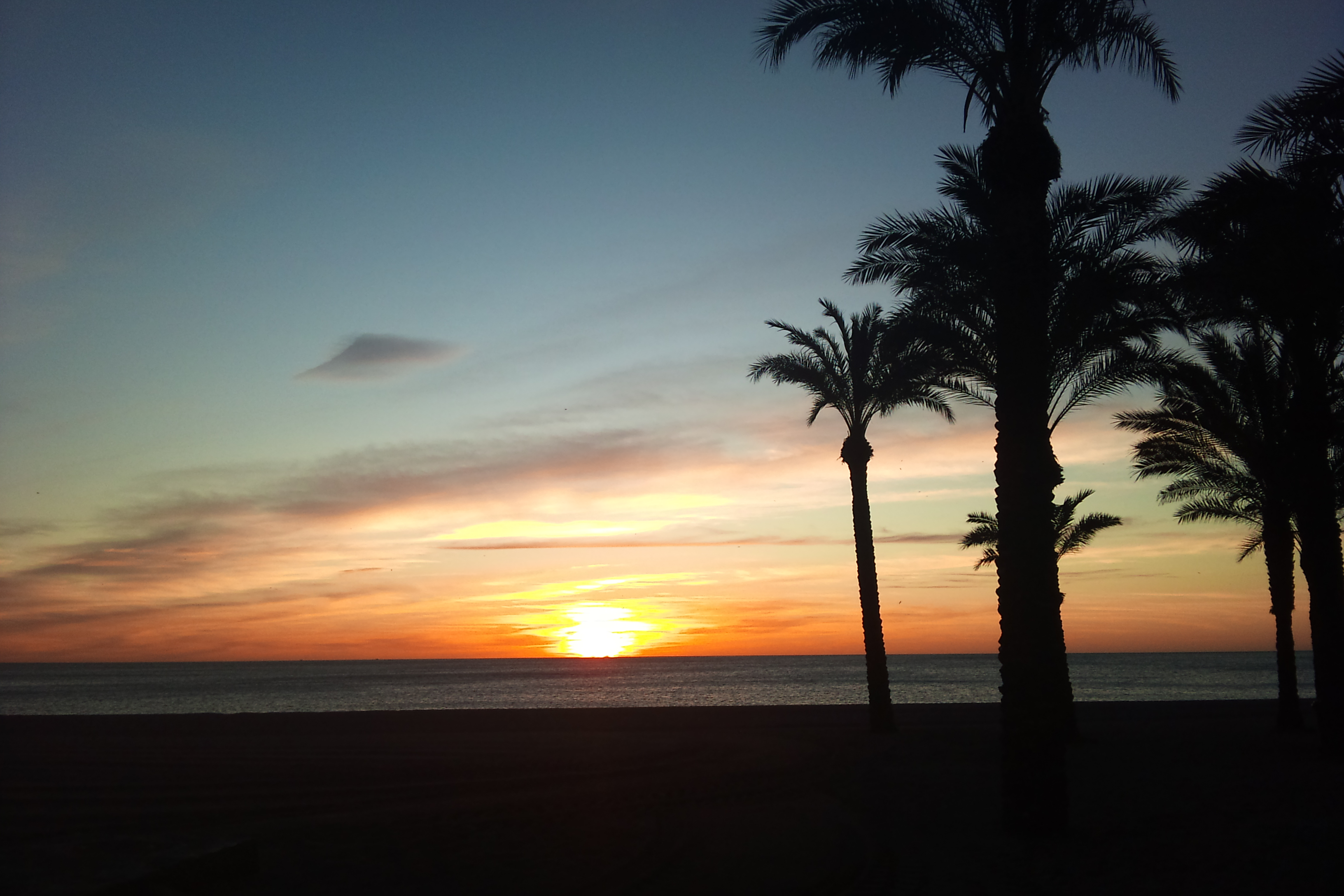 Sunrise in the beach of los alamos in Torremolinos in Spain.